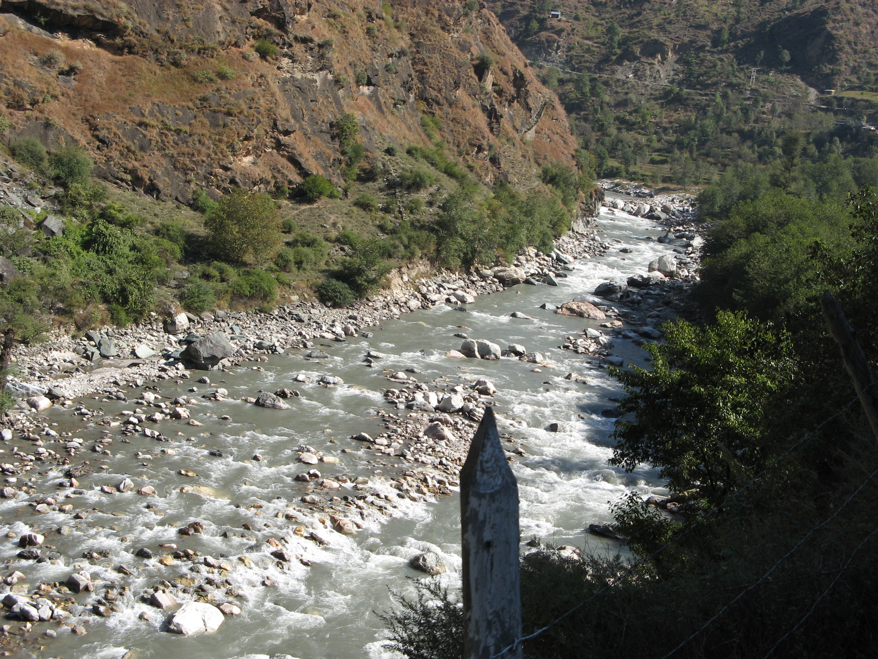 this a picture river Beas in Himachal Pradesh .